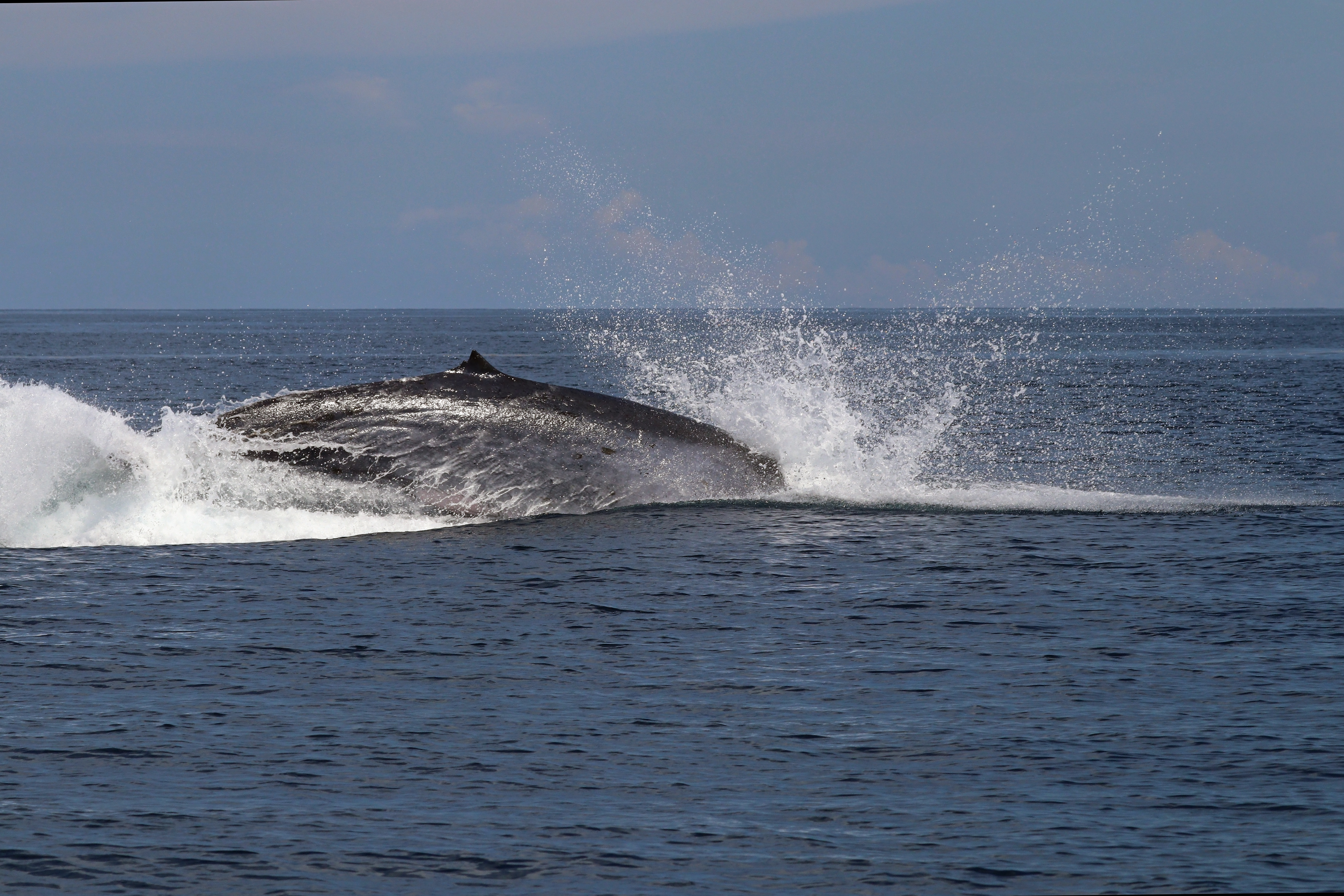 Omura's whale (Balaenoptera omurai) breaching off Nosy Be, Madagascar